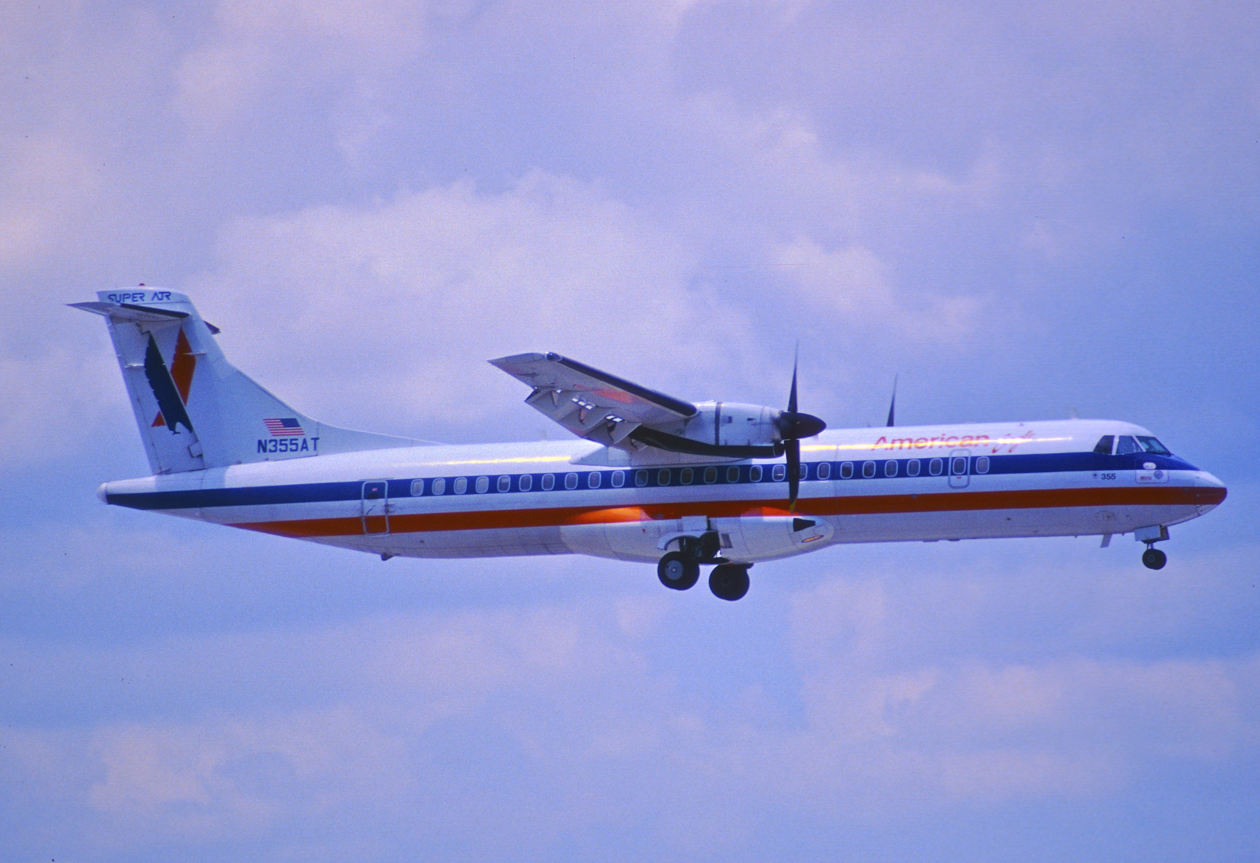 247cx - American Eagle ATR 72; N355AT@MIA;20.07.2003